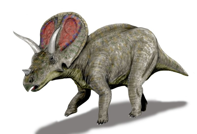 Torosaurus latus, a ceratopsian from the Late Cretaceous of North America, pencil drawing, digital coloring